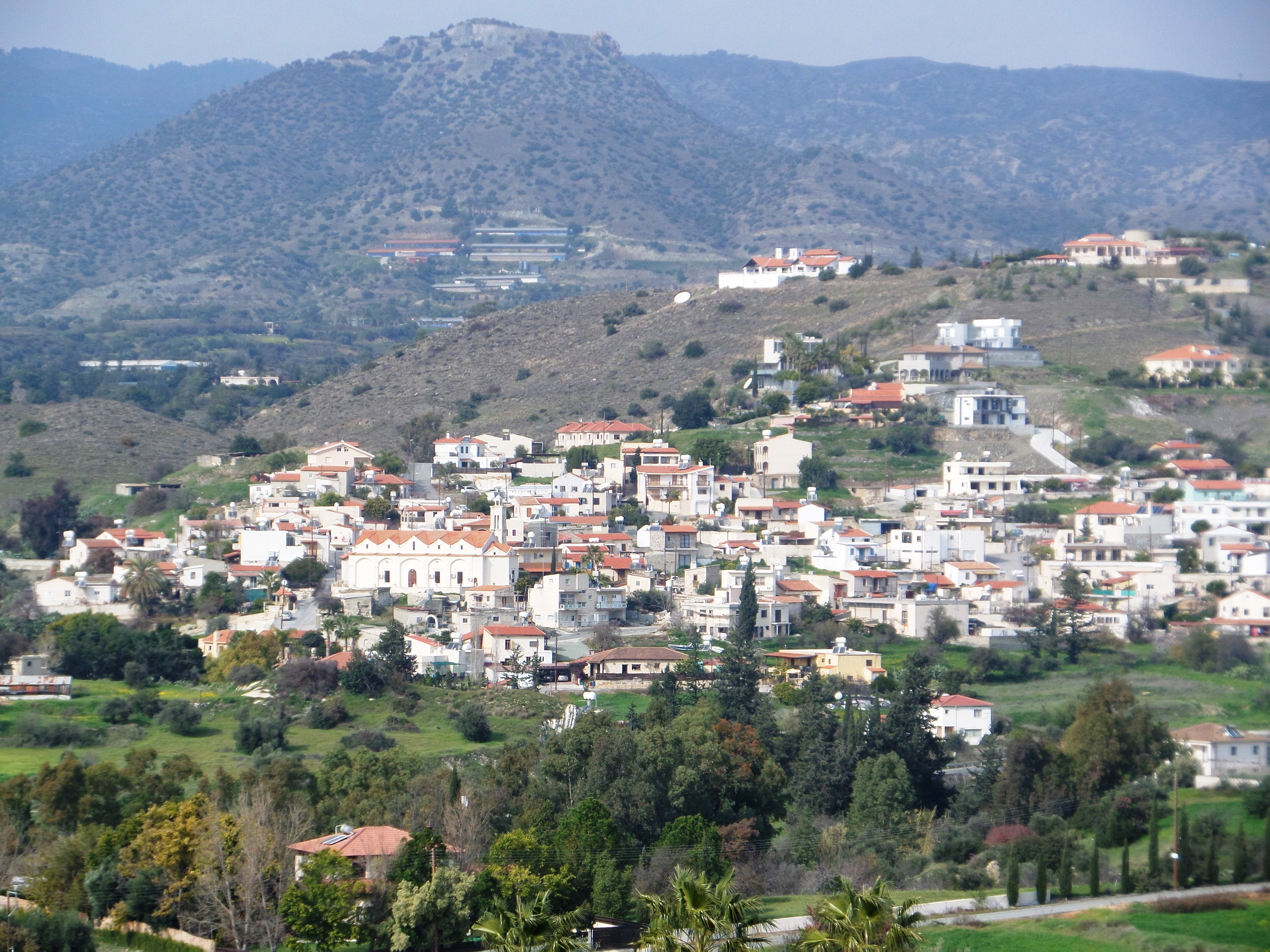 View of Monagroulli.